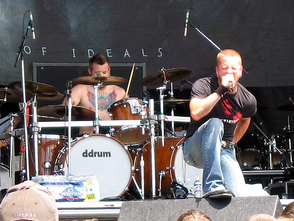 Metalcore band All That Remains performing live in East Troy, Wi on Ozzfest 2006